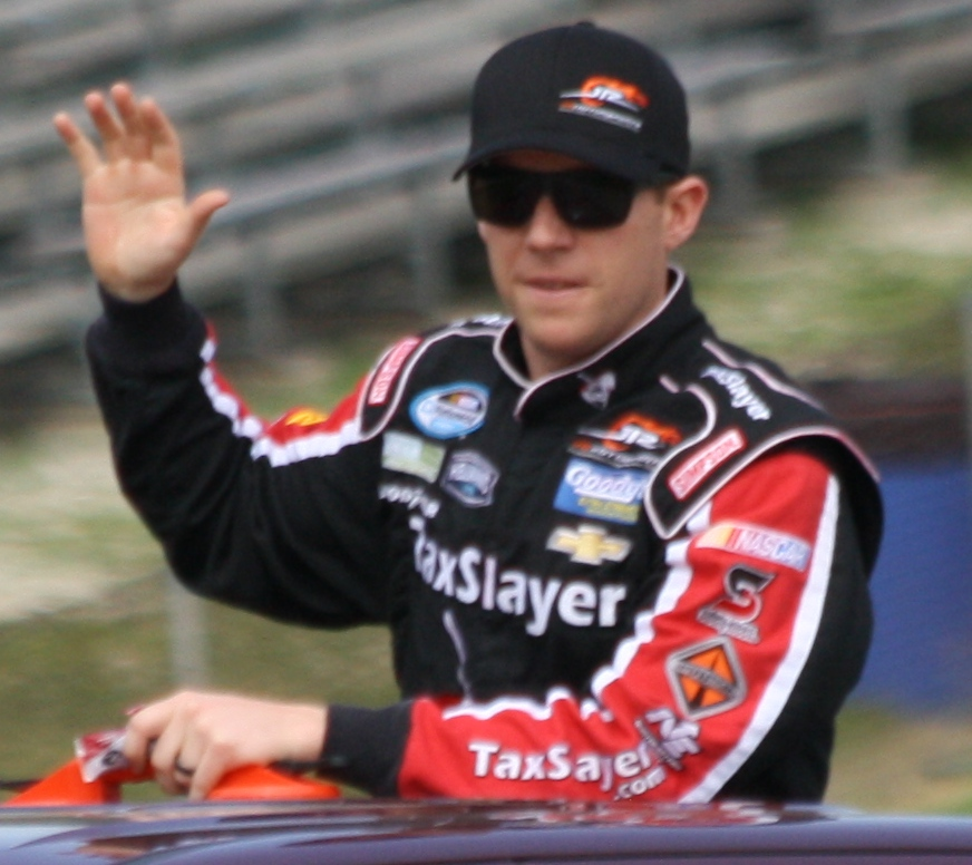 NASCAR driver Regan Smith at the 2013 Johnsonville Sausage 200 Nationwide Series race at Road America.